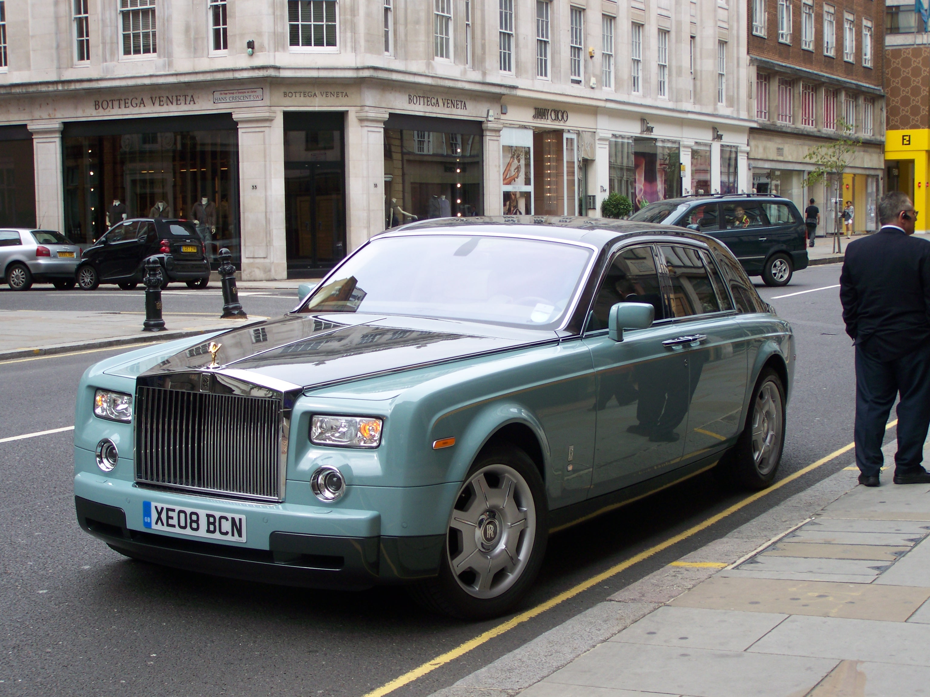 Rolls-Royce Phantom pictured in London